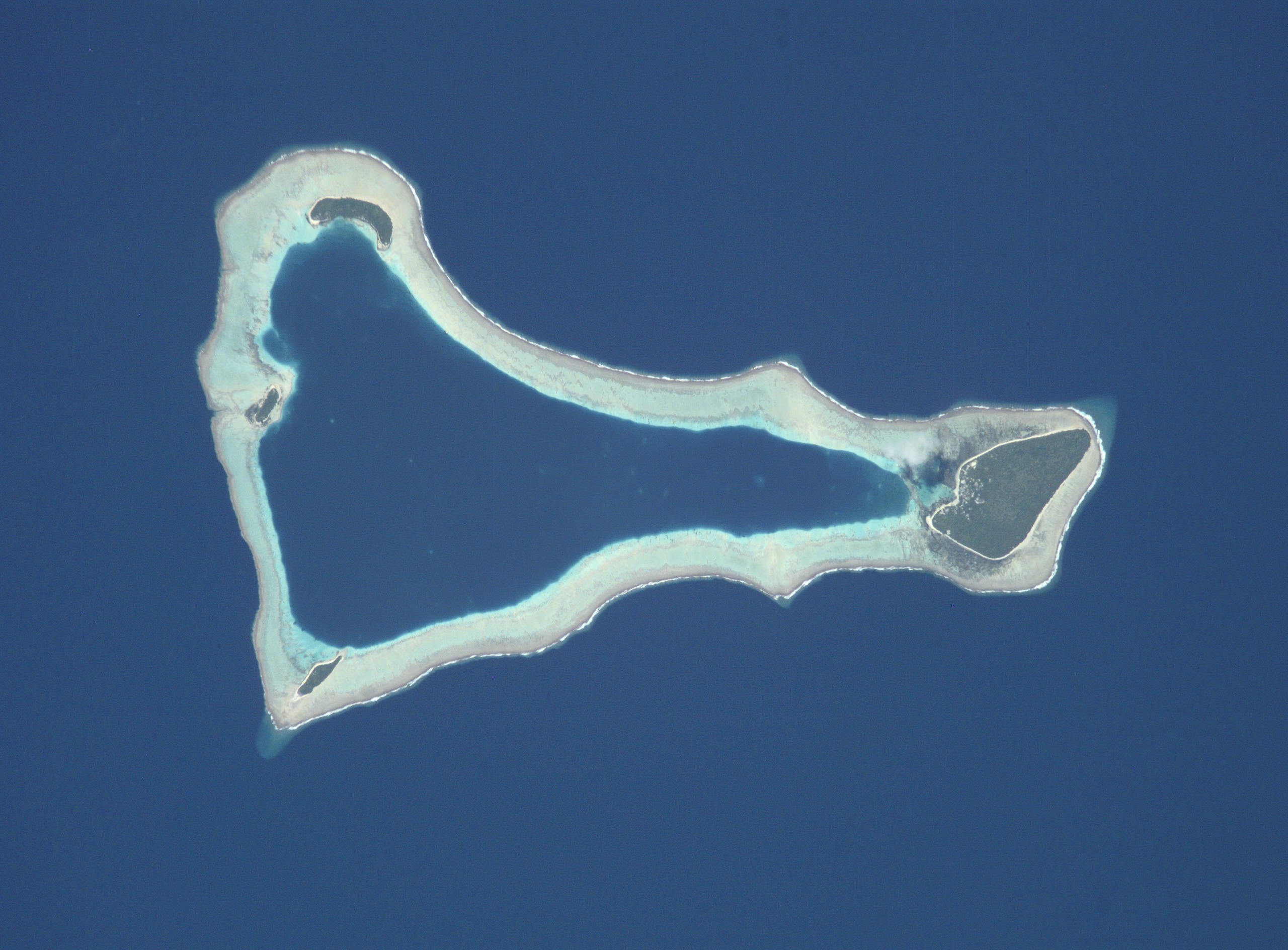 NASA astronaut image of Stewart Islands (Sikaiana) in the Pacific Ocean